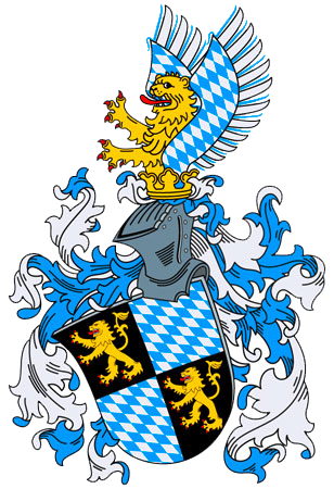 Coats of arms of the House of Wittelsbach